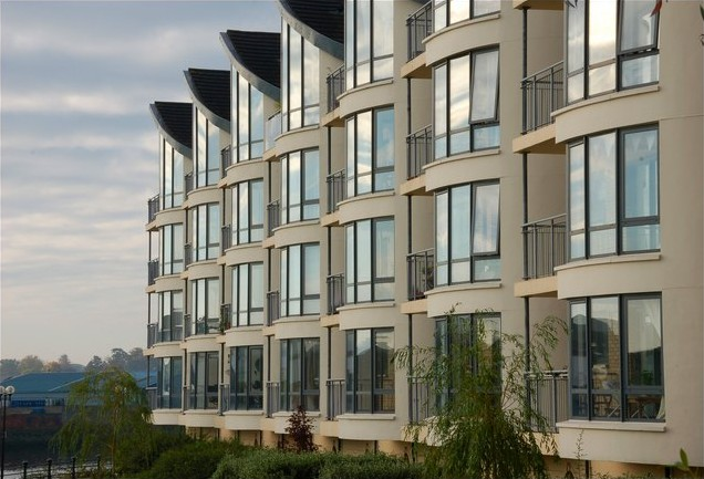 Apartments, St George's Harbour, Belfast, overlooking the Lagan.